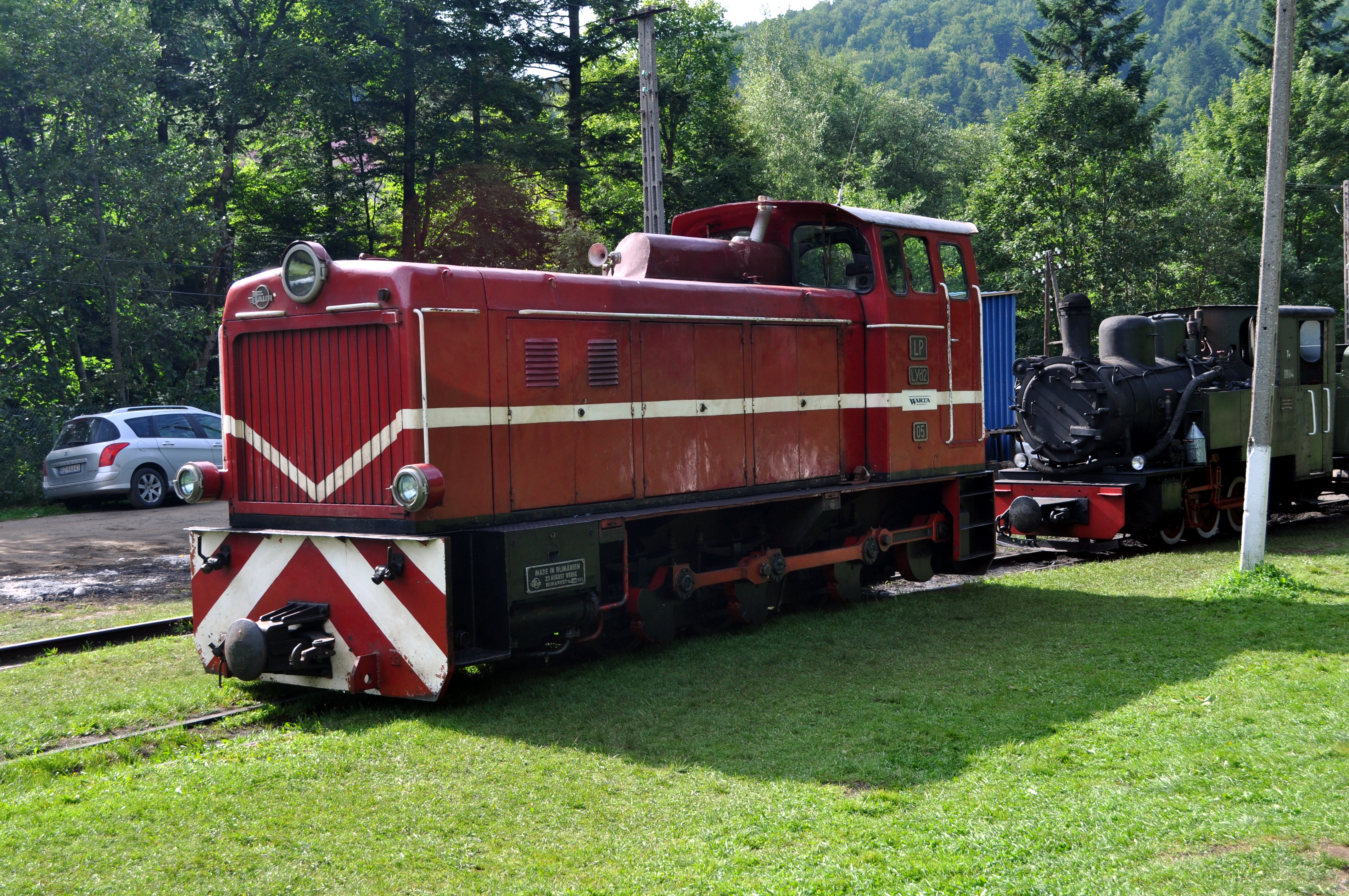 Main station of Bieszczady Forest Railway in Majdan